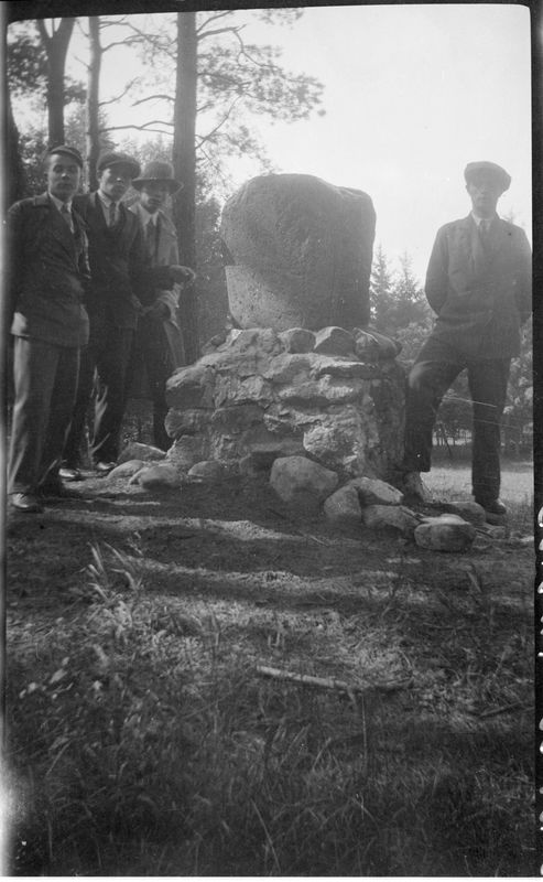 Altar on the Rambynas Hill, built in 1928 and demolished in 1939